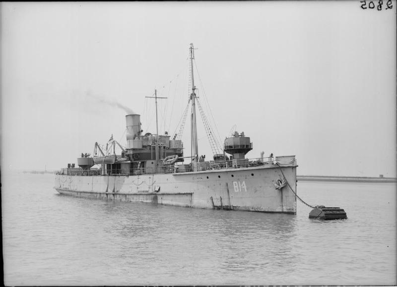 Toreador At a buoy.